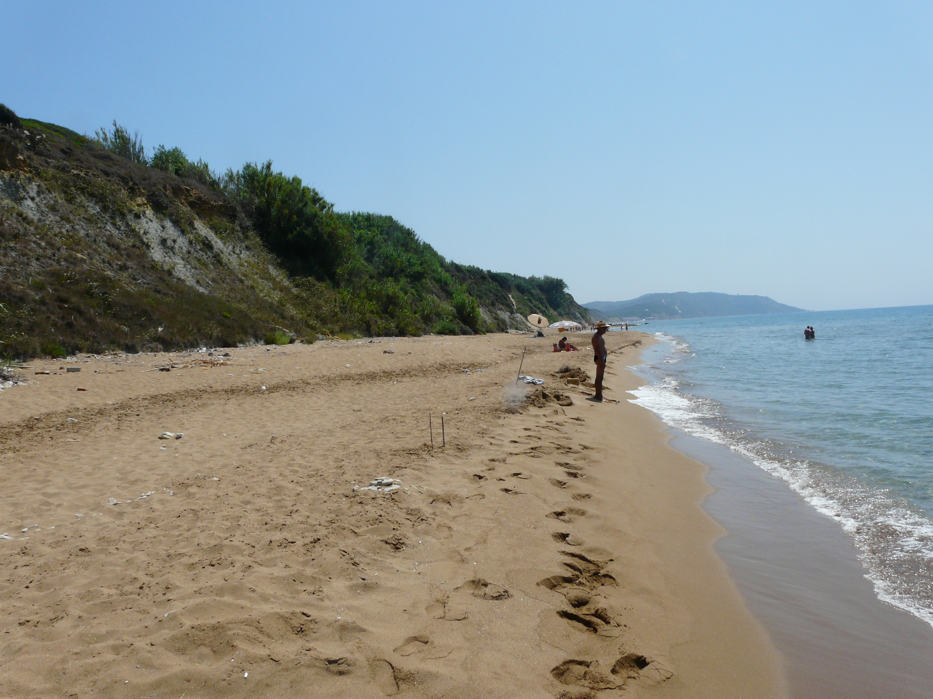 Corfu. Beach or close neighbourhood. South-west of Corfu